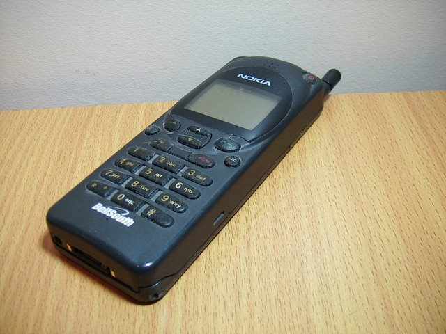 nokia 2110